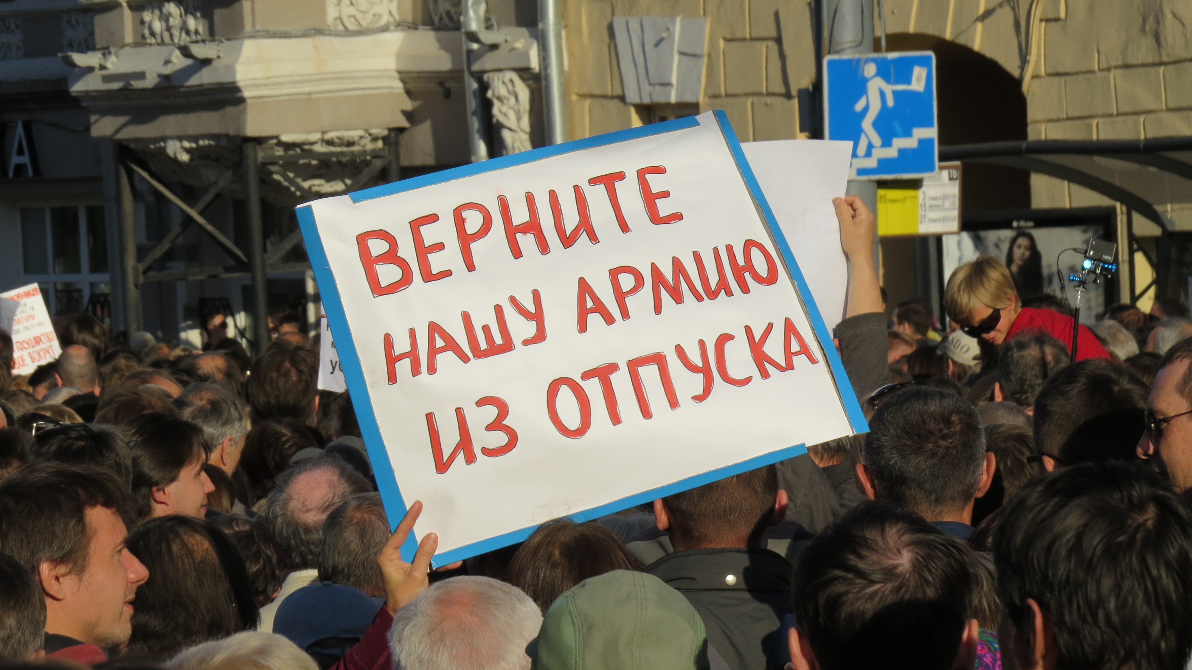 March of Peace in Moscow. September 21, 2014.